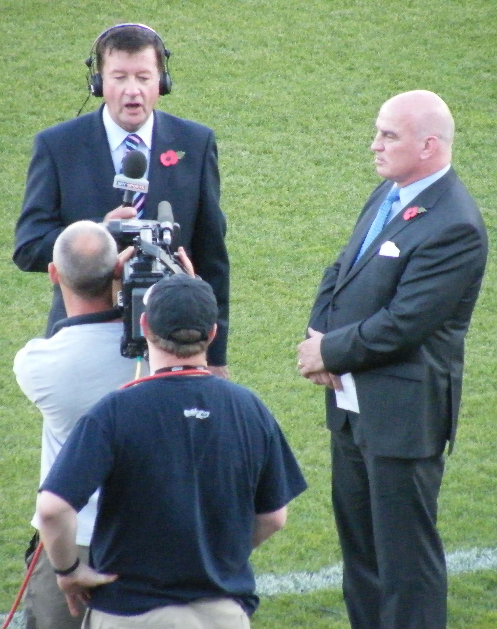 English commentators Eddie Hemmings and Mike Stephenson - Parramatta Stadium RLWC 2008.